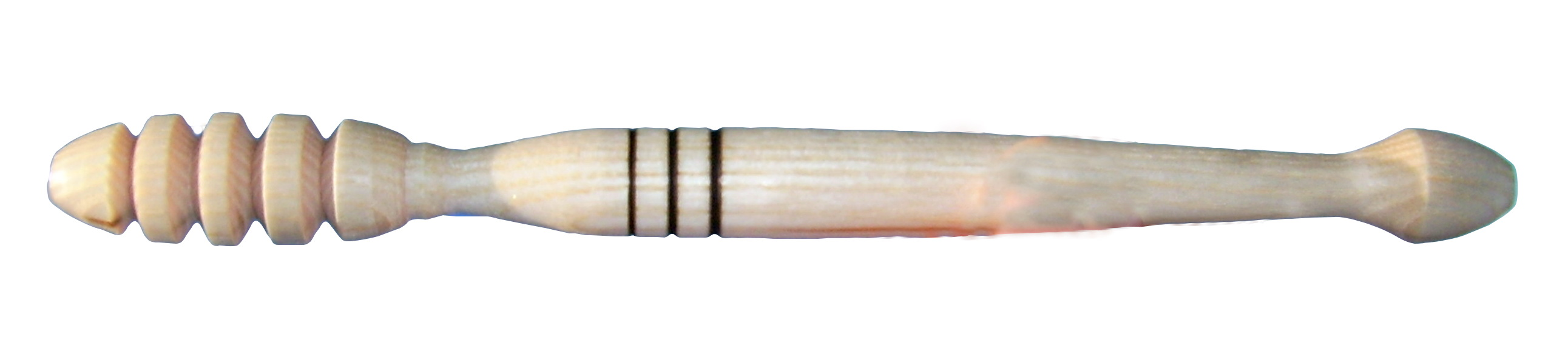 Turned wooden honey spoon